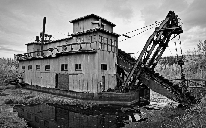 The Coal Creek dredge, Yukon-Charley Rivers National Preserve, Alaska, USA